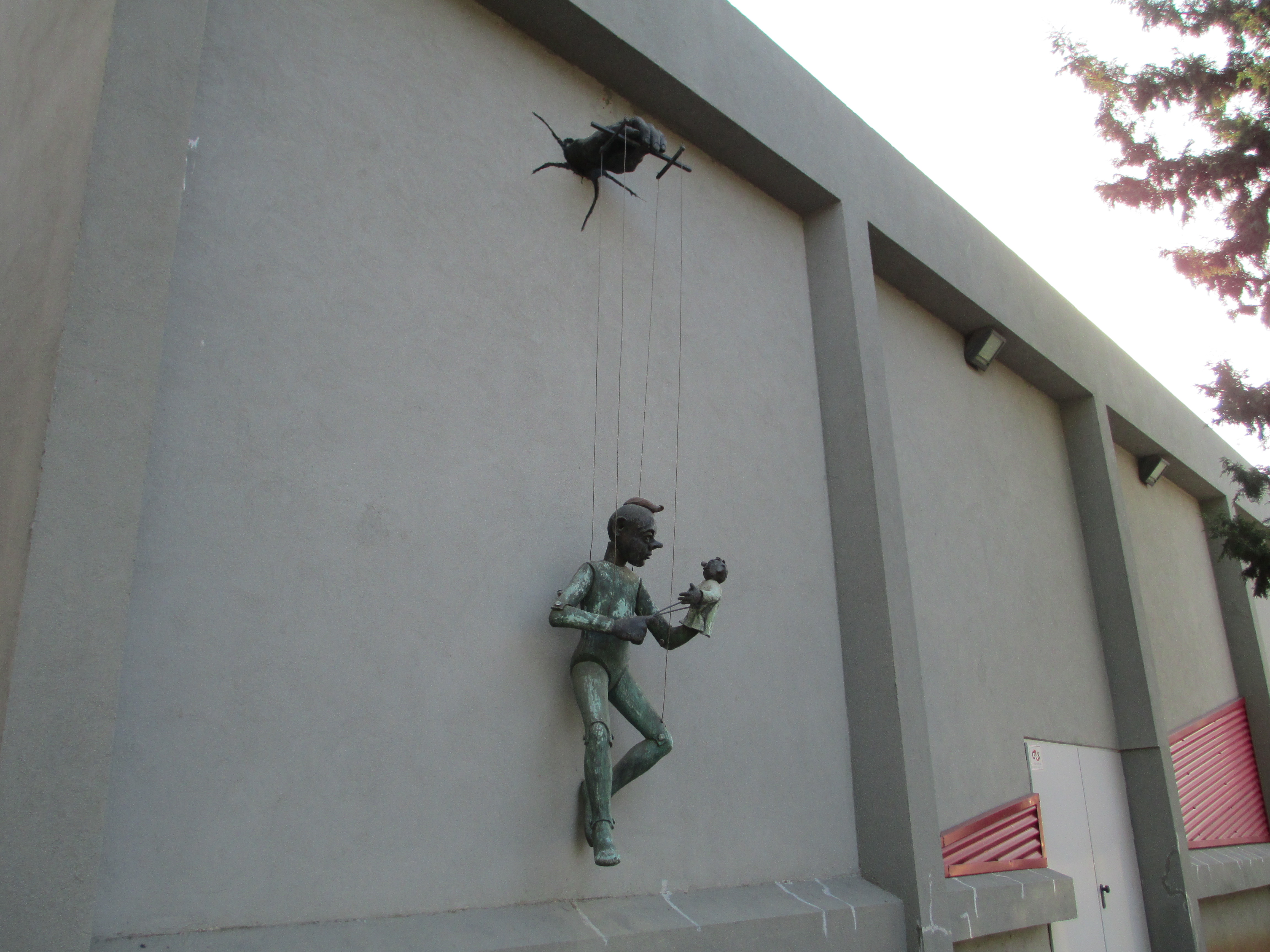 The Puppeteer by Richard Shiloh in Holon